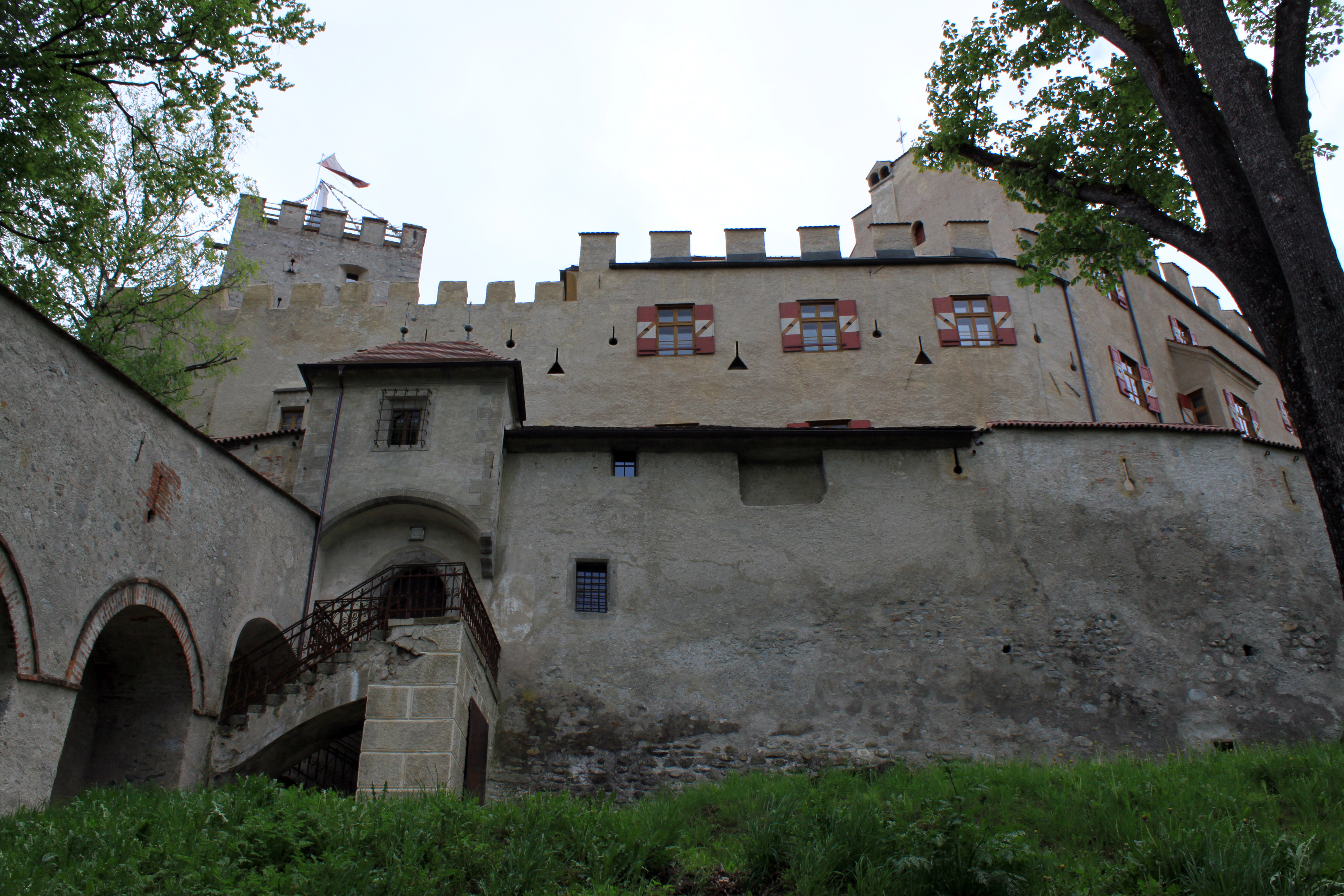 Bruneck Castle (South Tyrol)